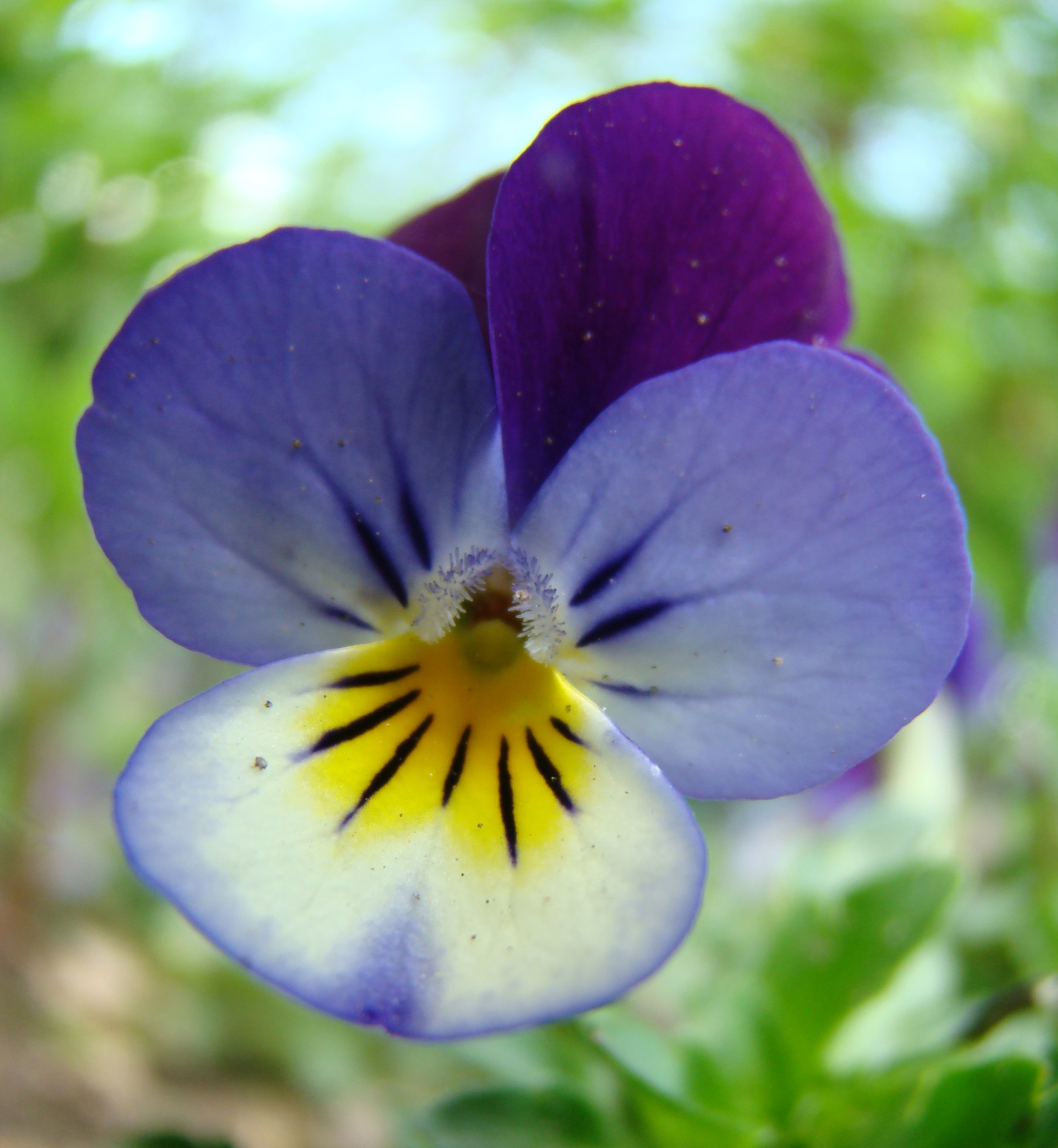 Heartsease (Viola tricolor)